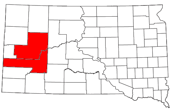 Locator map of the Rapid City Metropolitan Statistical Area in the western part of the U.S. state of South Dakota.